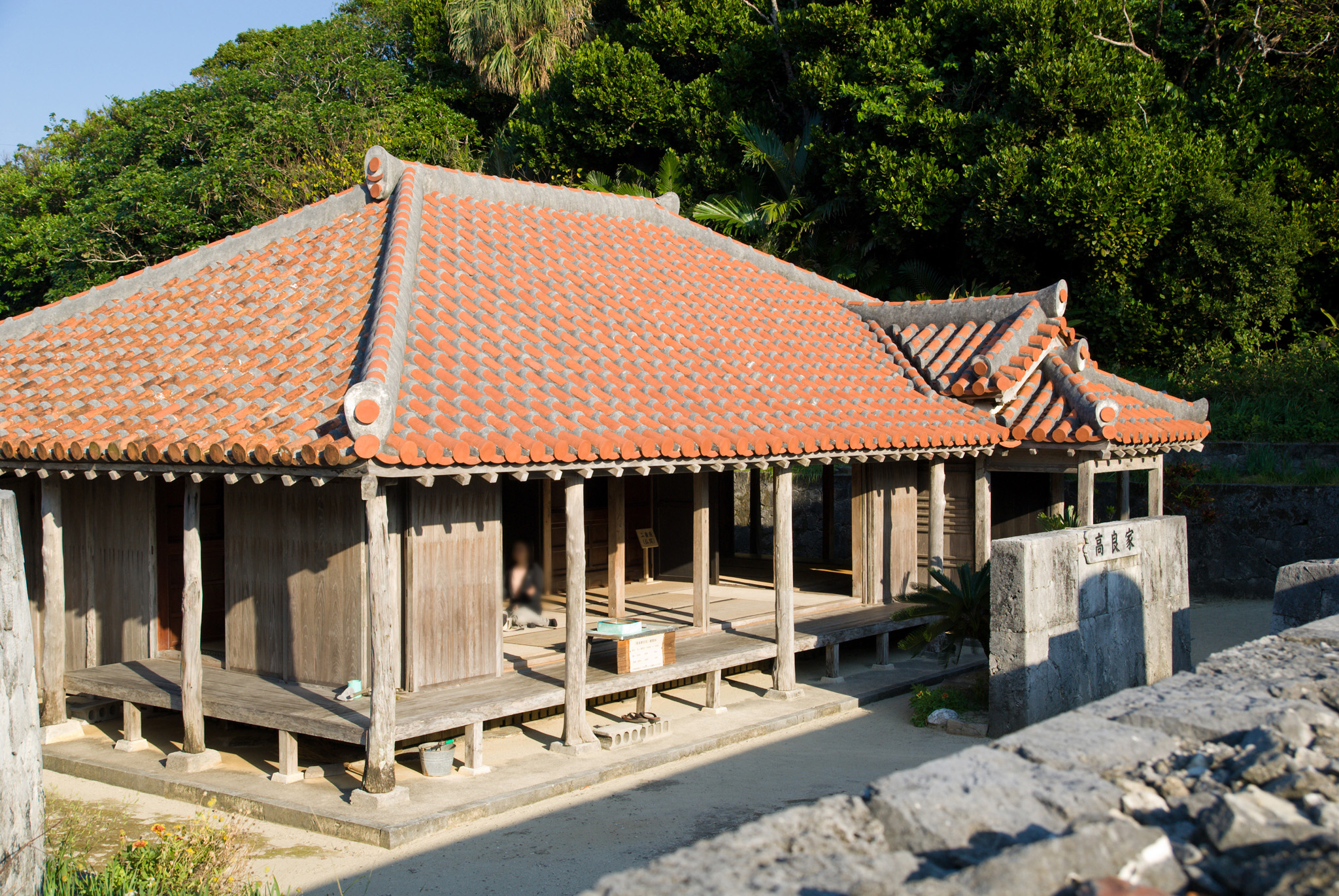 This is an old house "Takara's house" in Okinawa Geruma Island(Zamami Village, Okinawa Prefecture.)